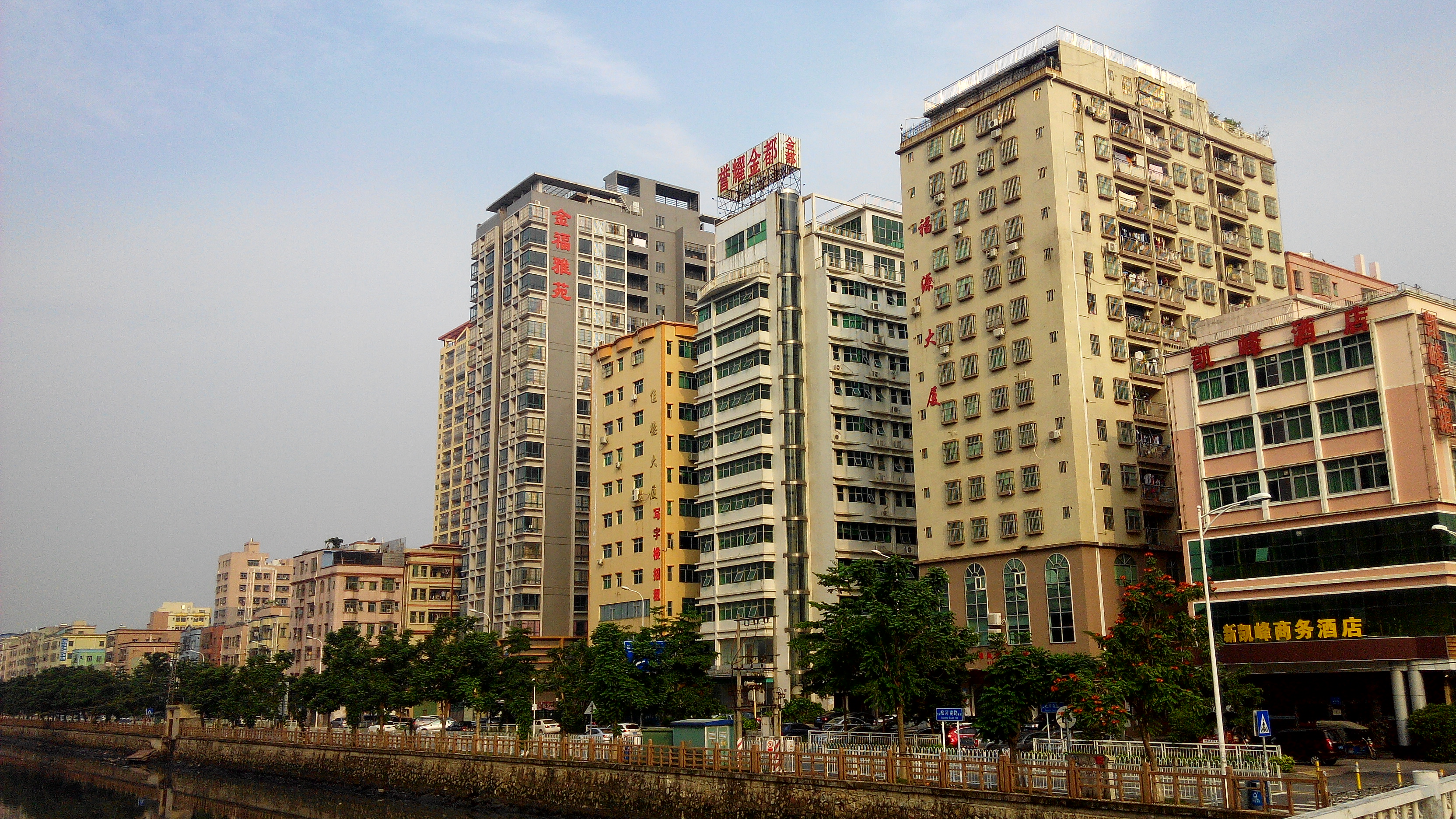 Songgang Town, Bao'an District, Shenzhen, P.R.China